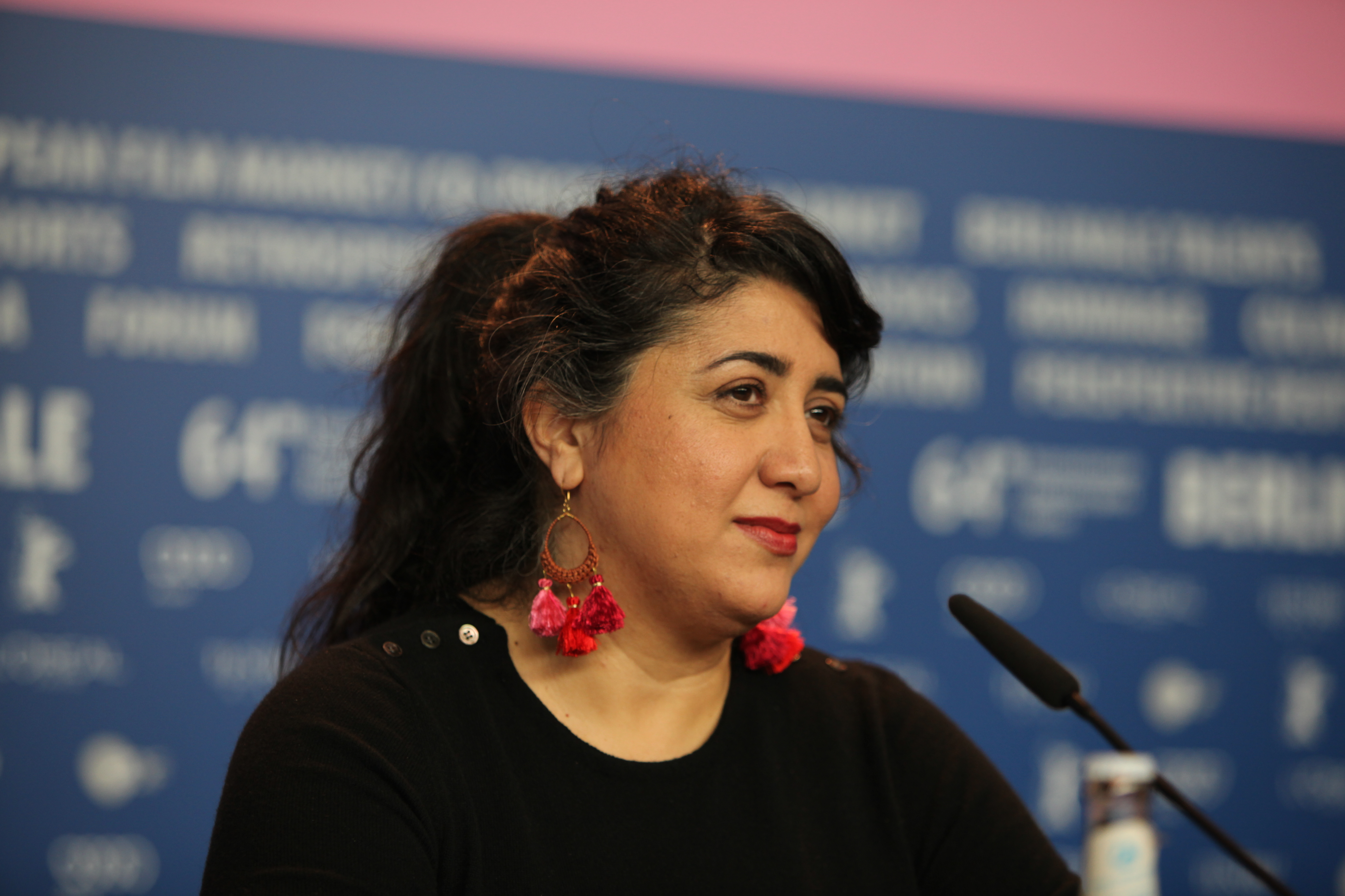 Austrian film director Sudabeh Mortezai at the Berlinale 2014